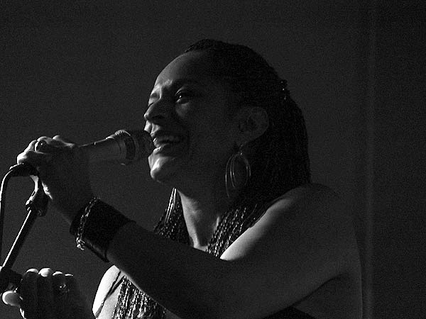 Sharon Dyall at Jazzy Days in denmark